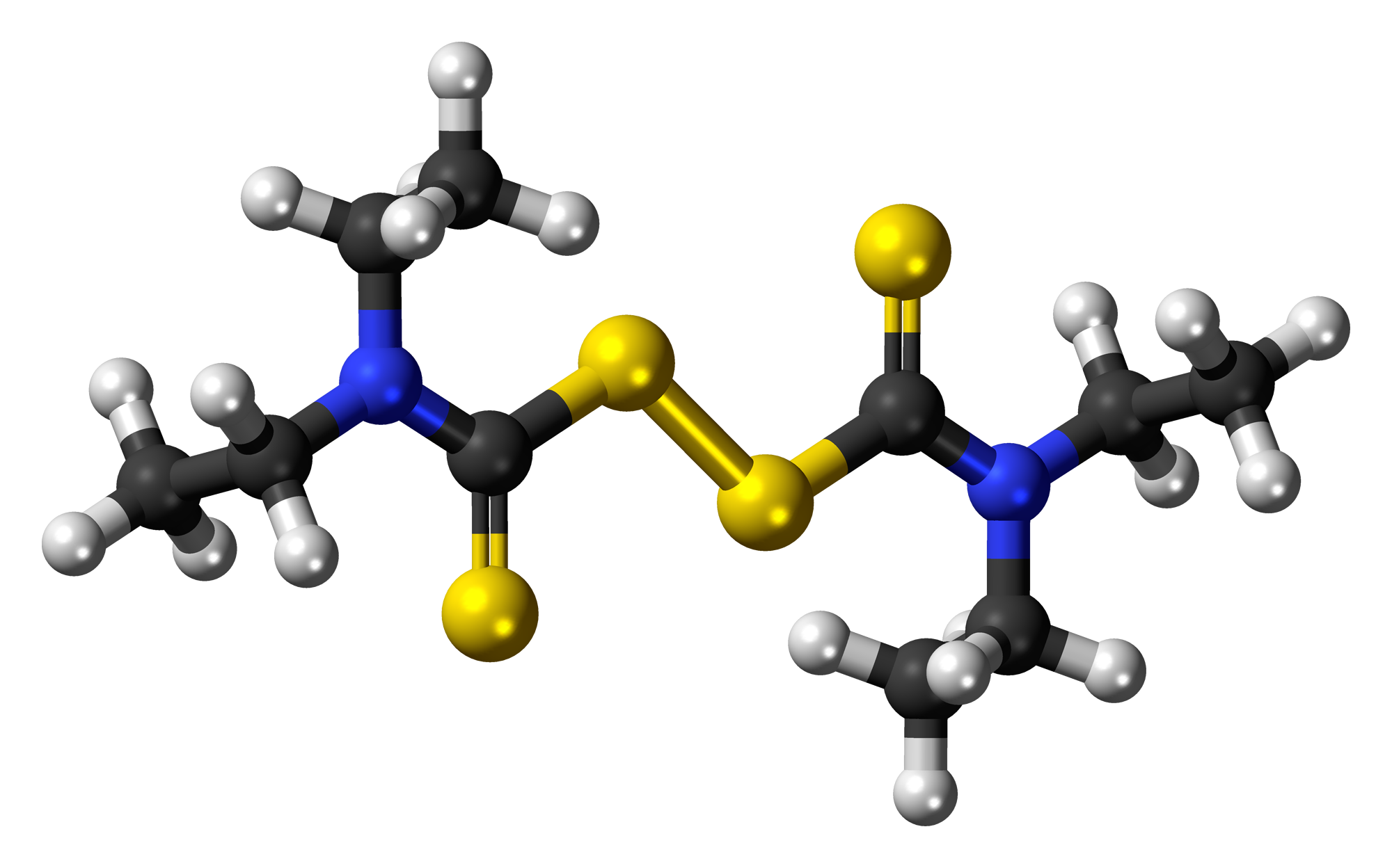 Ball-and-stick model of the disulfiram molecule, a drug used to treat chronic alcoholism. Colour code: Carbon, C: black Hydrogen, H: white Nitrogen, N: blue Sulfur, S: yellow